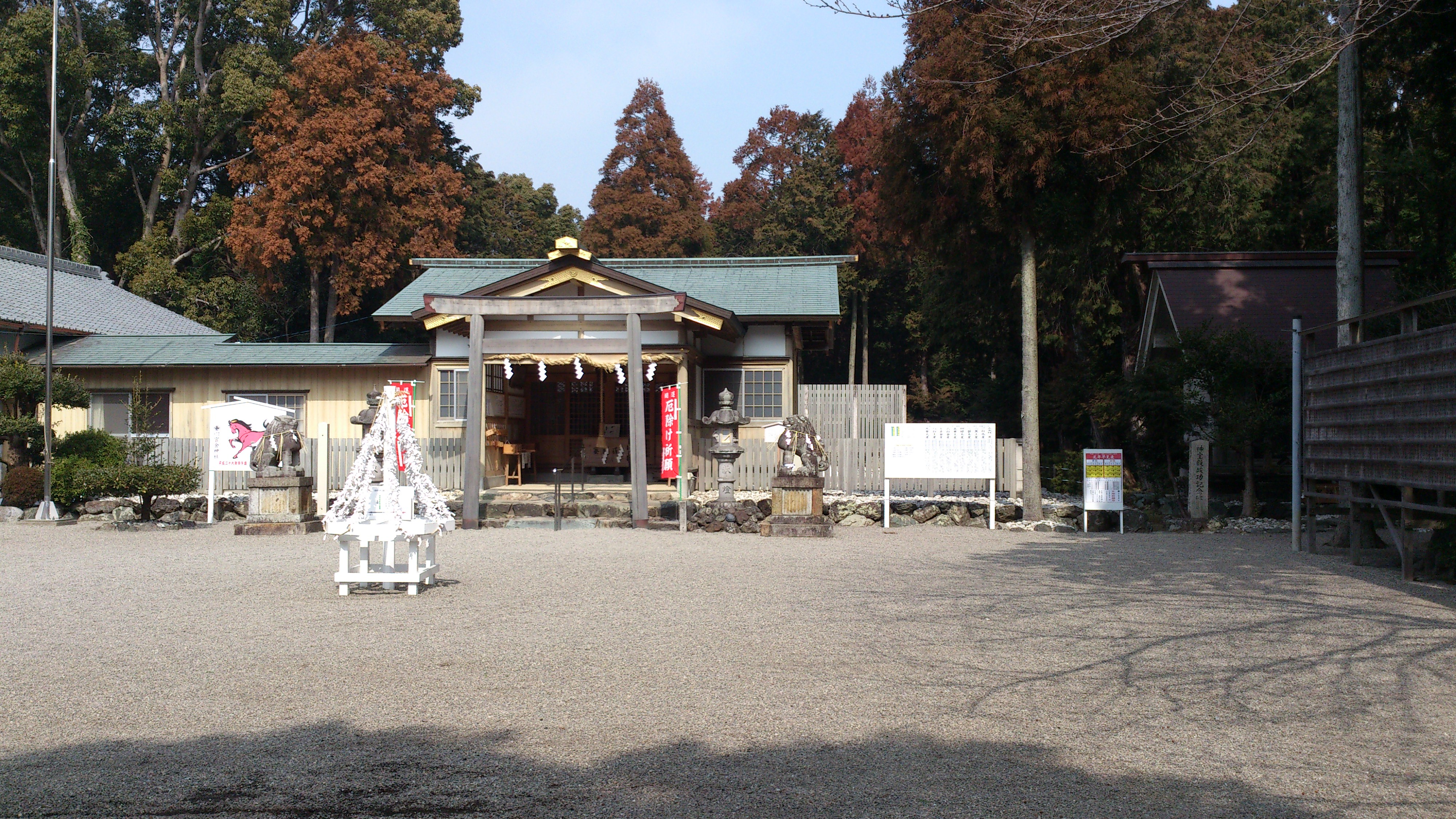 This is the Kansha Shrine in Ise, Mie, Japan.